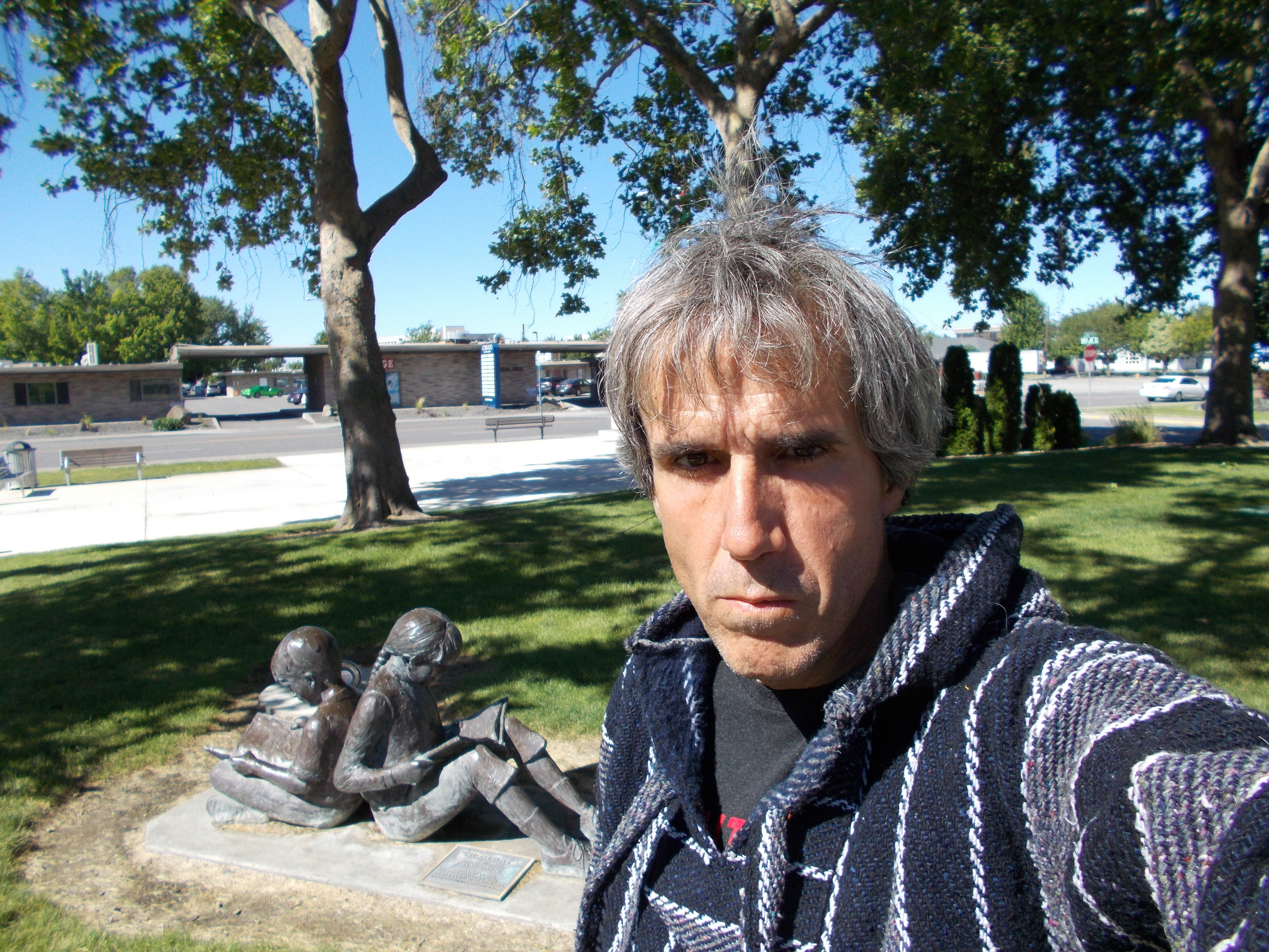 A self shot picture of Terry A. Davis shortly before his accident.